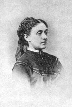 Nobility from Georgia. Illustration from Letopis' Gruzii, edited by B. Esadze, 1913.